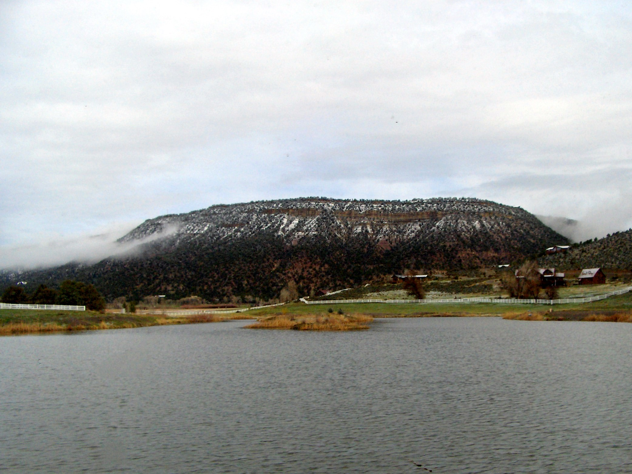 Loghill Village on Log Hill Mesa with the Eagle Hill Ranch Pond in the foreground